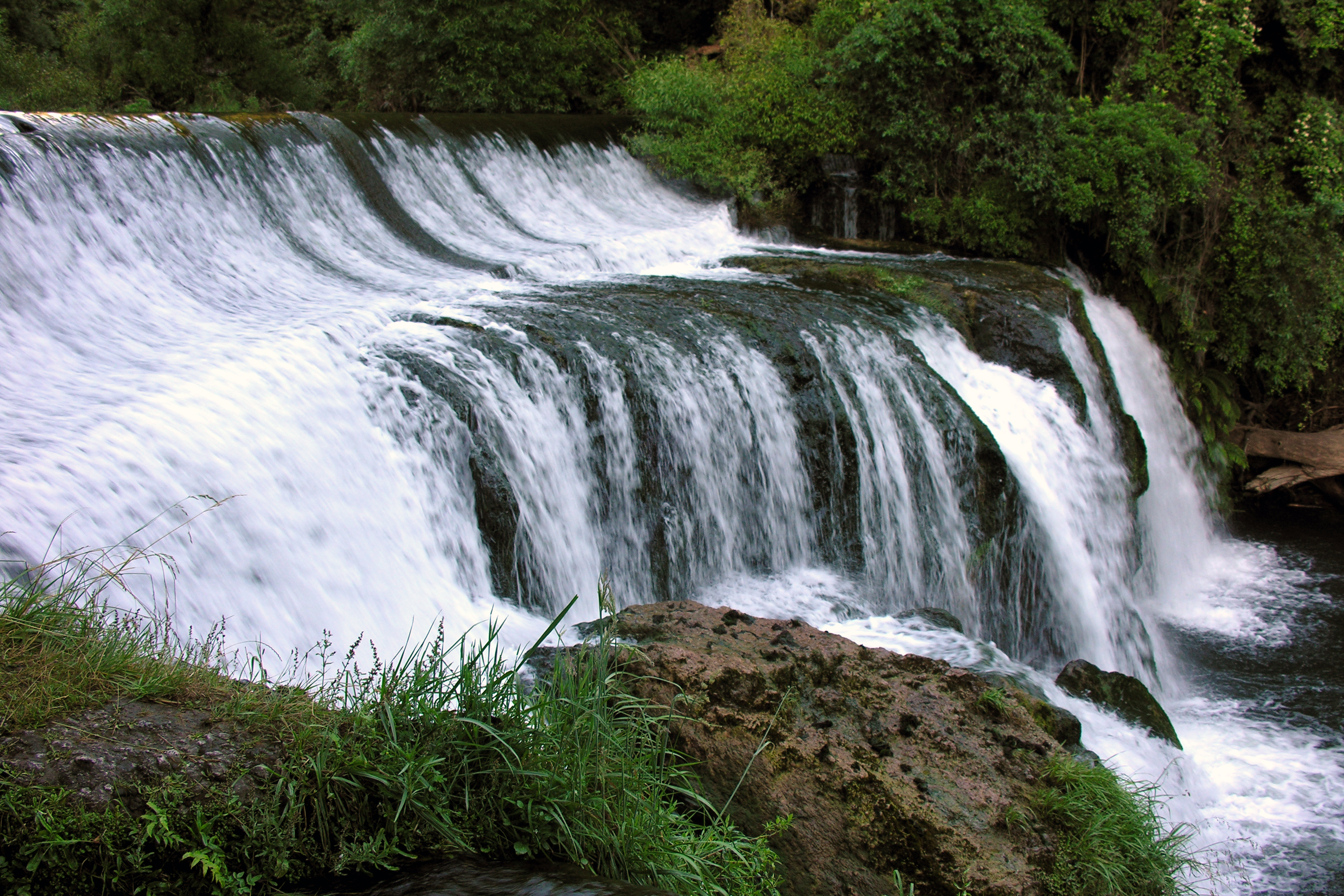 Maraetotara Falls, Hawkes Bay, New Zealand, 22 December 2005